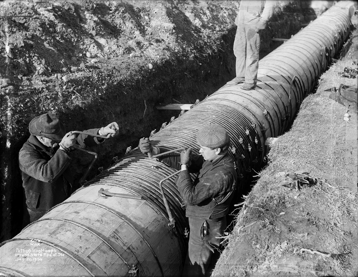 Laying pipe for Seattle's Cedar River Pipeline, 1900. Item 7297, Water Department Photographic Negatives (Record Series 8200-13 ), [ Seattle Municipal Archives.